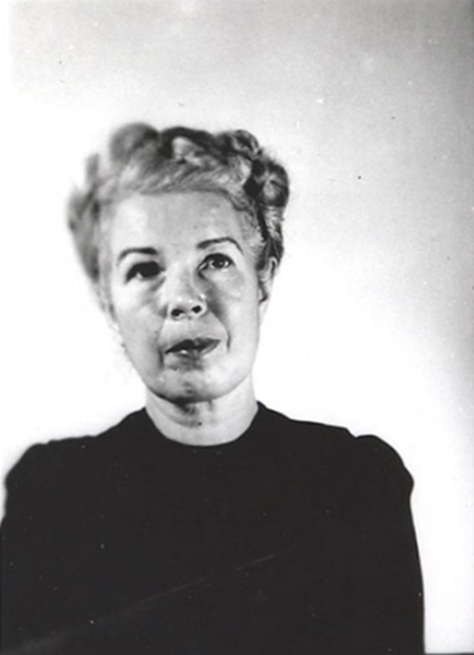 Cropped version of a mugshot of Mildred Gillars (née Sisk), a/k/a "Axis Sally". Since this is a mugshot created of a person incarcerated by the U.S. Federal government, it is presumably a work of the U.S. government, and thus is not subject to copyright. I cropped out the prisoner data at the bottom because the purpose of the photo is just to show what she looked like. Found on the Web (there are many copies).